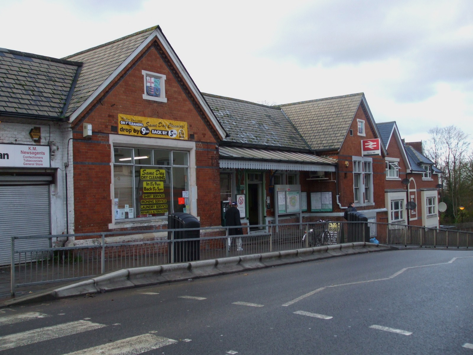 Gipsy Hill station building